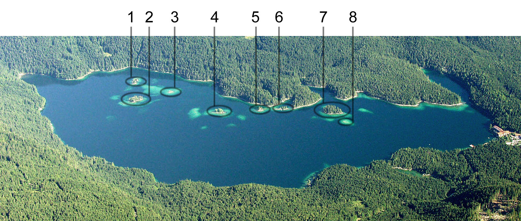 Islands of the Eibsee, Bavaria (numbered)